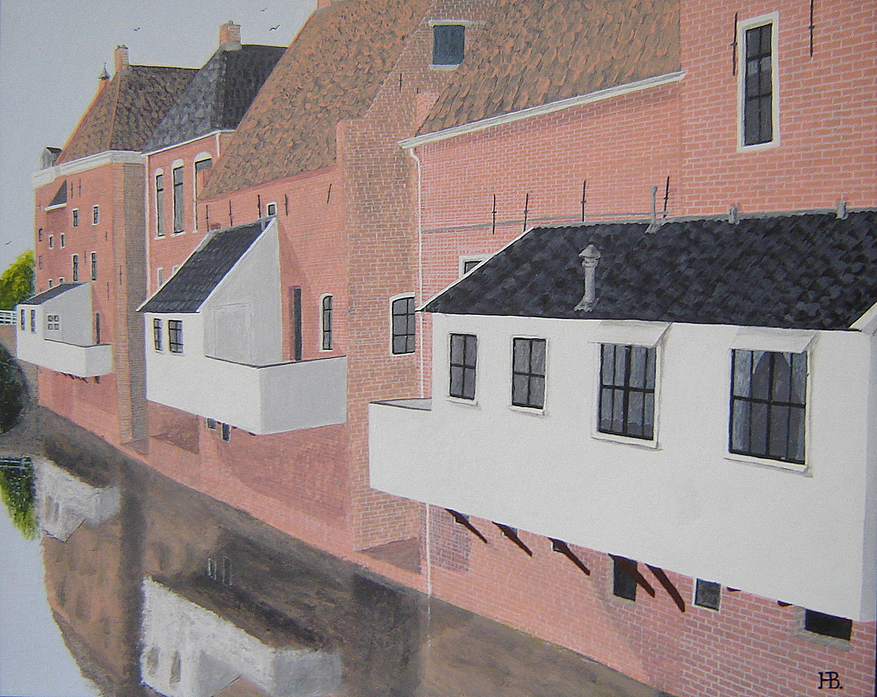 Painting of the hanging kitchens in Appingedam by the artist H.Böhler